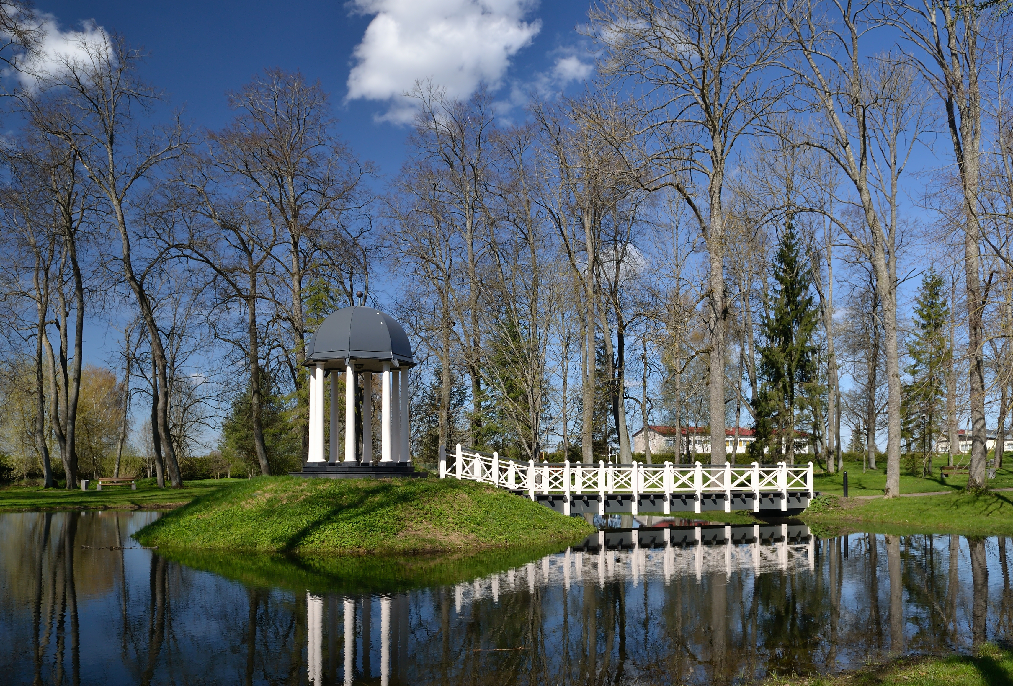 Väätsa manor park